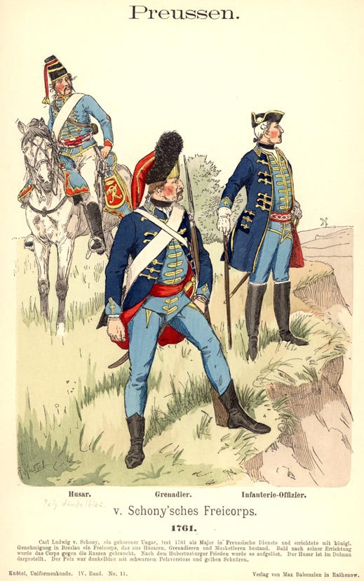 Preußen. Von Schony'sches Freikorps. 1761